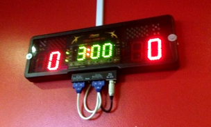 Fencing scoring equipment